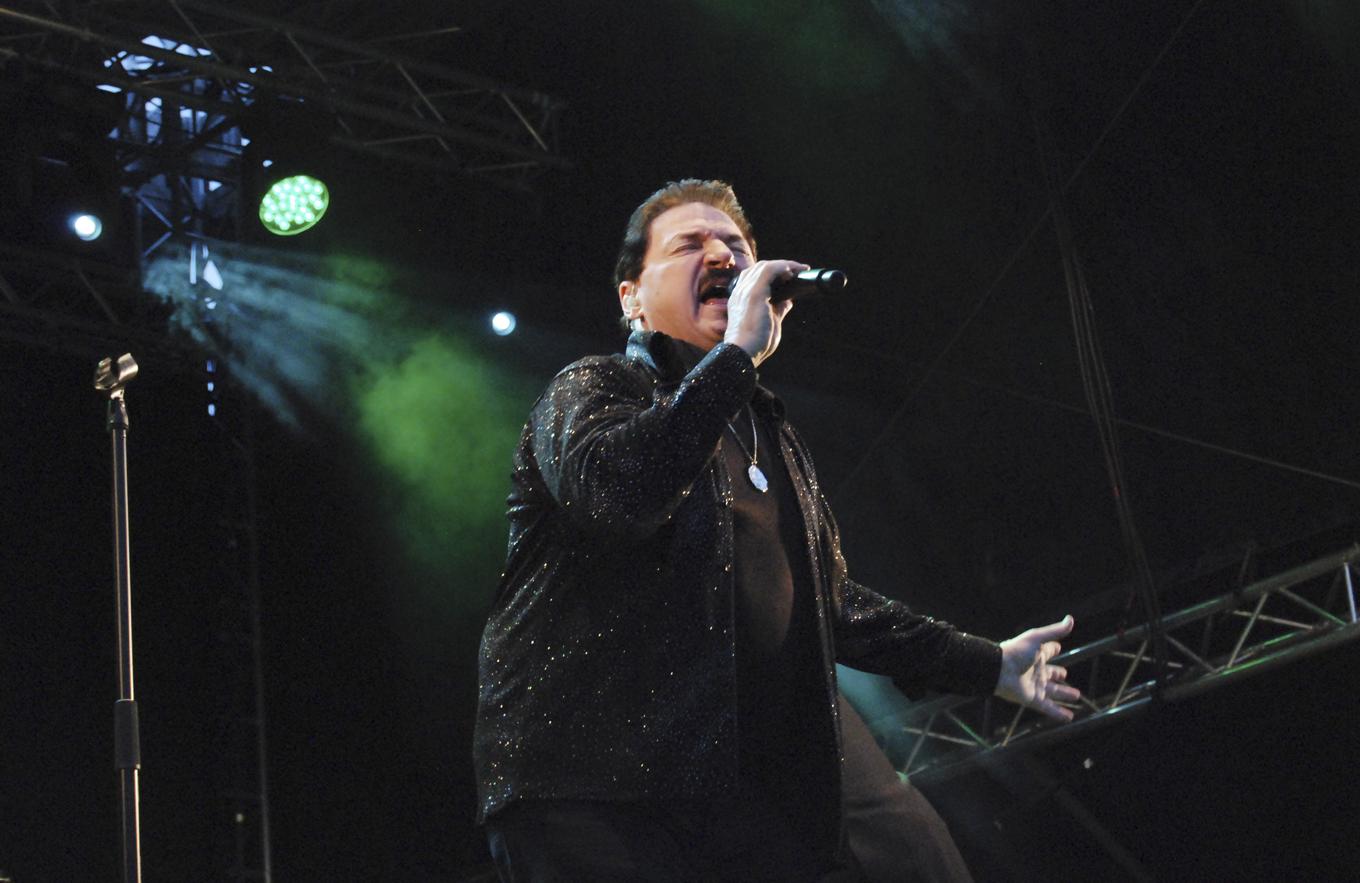 Bobby Kimball sings during a concert with N3 orchestra in Trollhättan, Sweden, July 19th, 2015.